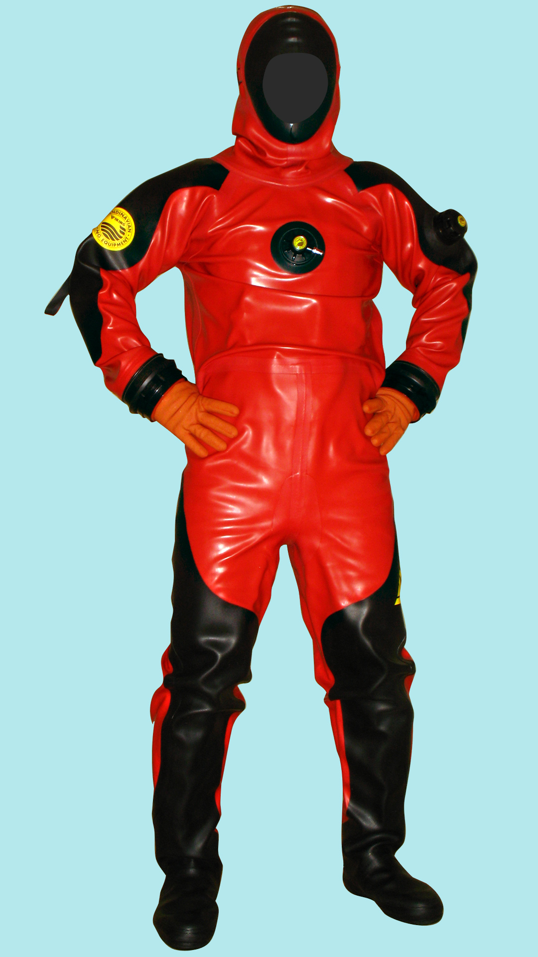 Viking Pro 1000 rubber drysuit with Magnum hood. This type is suit preferably used for contaminated water diving.